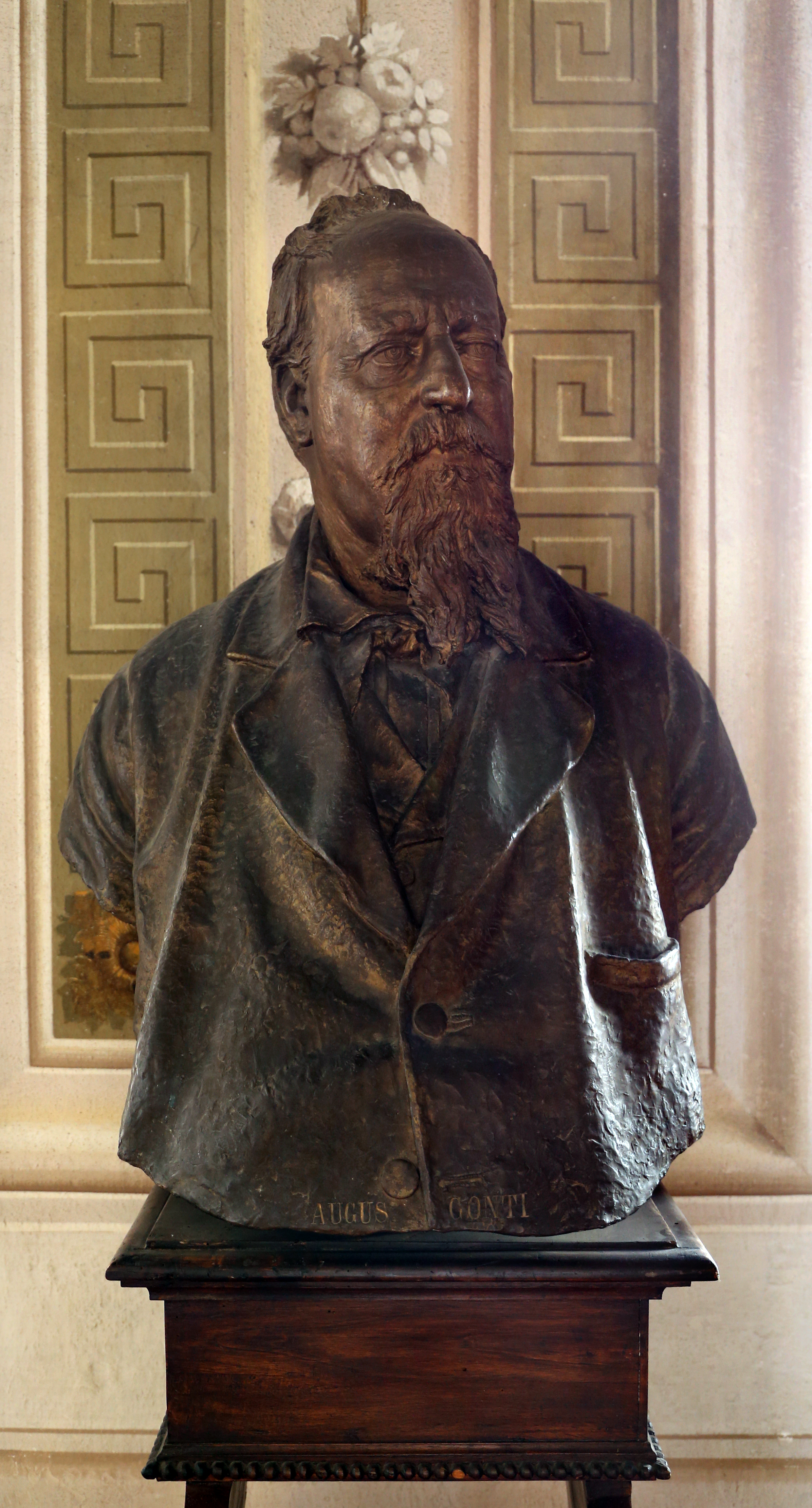 Villa di Castello